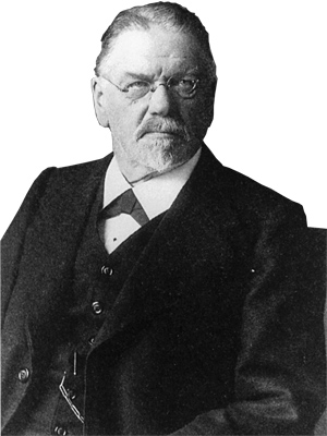 Hermann Altherr (1848–1927), physician of hospital in Heiden (Switzerland)